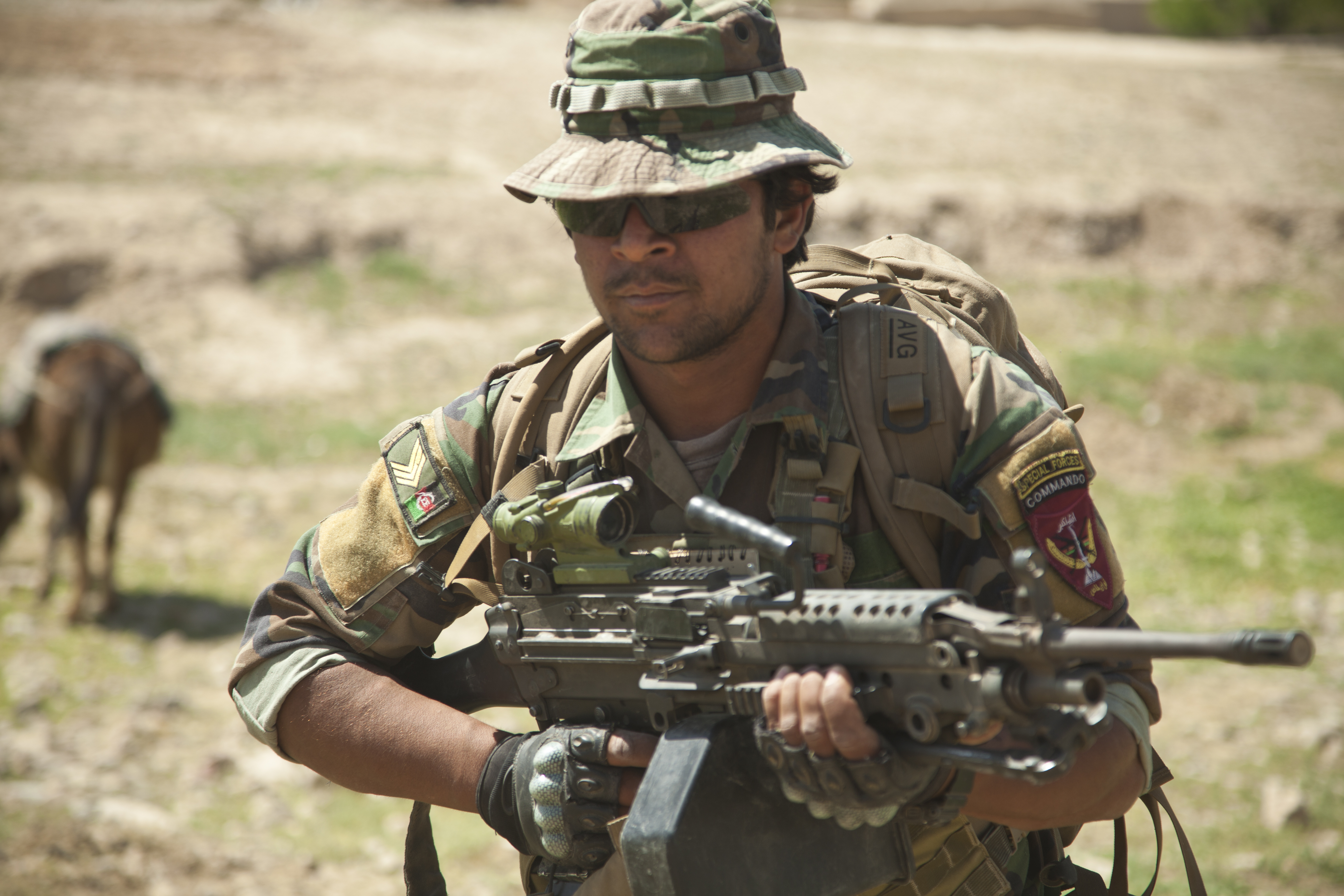 An Afghan National Army special forces soldier returns from a mission in which he helped Afghan Local Police members (ALP) build a checkpoint April 3, 2013, in Helmand province, Afghanistan. Part of the ALP’s mission was to complement counterinsurgency efforts by assisting and supporting rural areas with a limited Afghan National Security Forces presence.